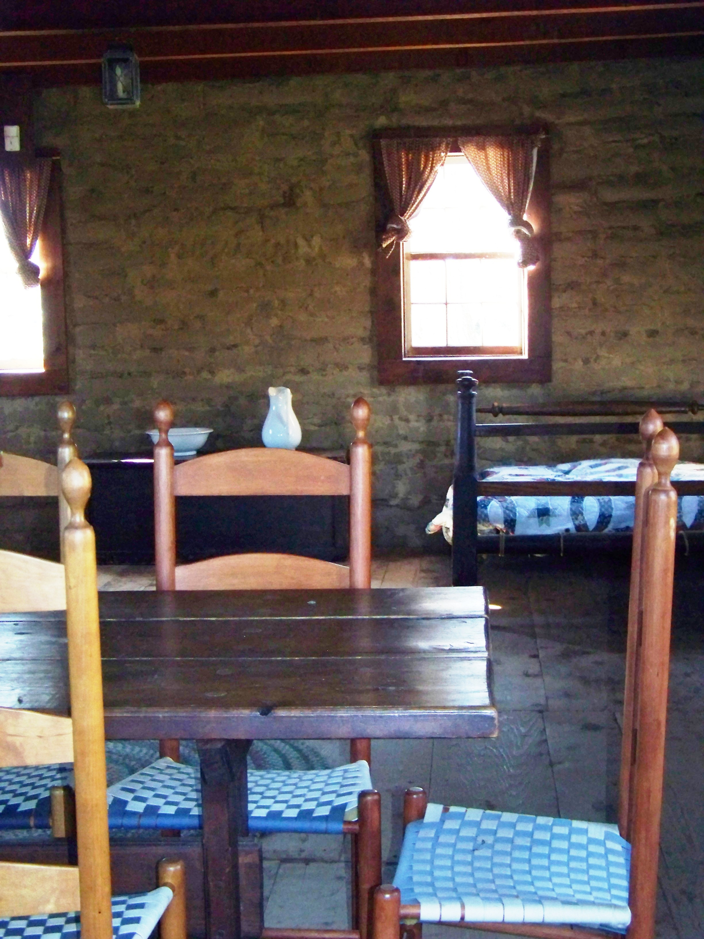 Interior of the William B. Ide Adobe museum — at William B. Ide Adobe State Historic Park. Located near Red Bluff, Northern California.